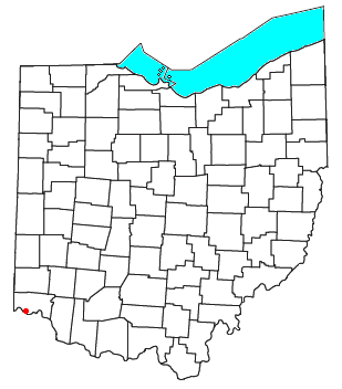 Locator map of the unincorporated community of Mount Saint Joseph in Hamilton County, Ohio, United States.